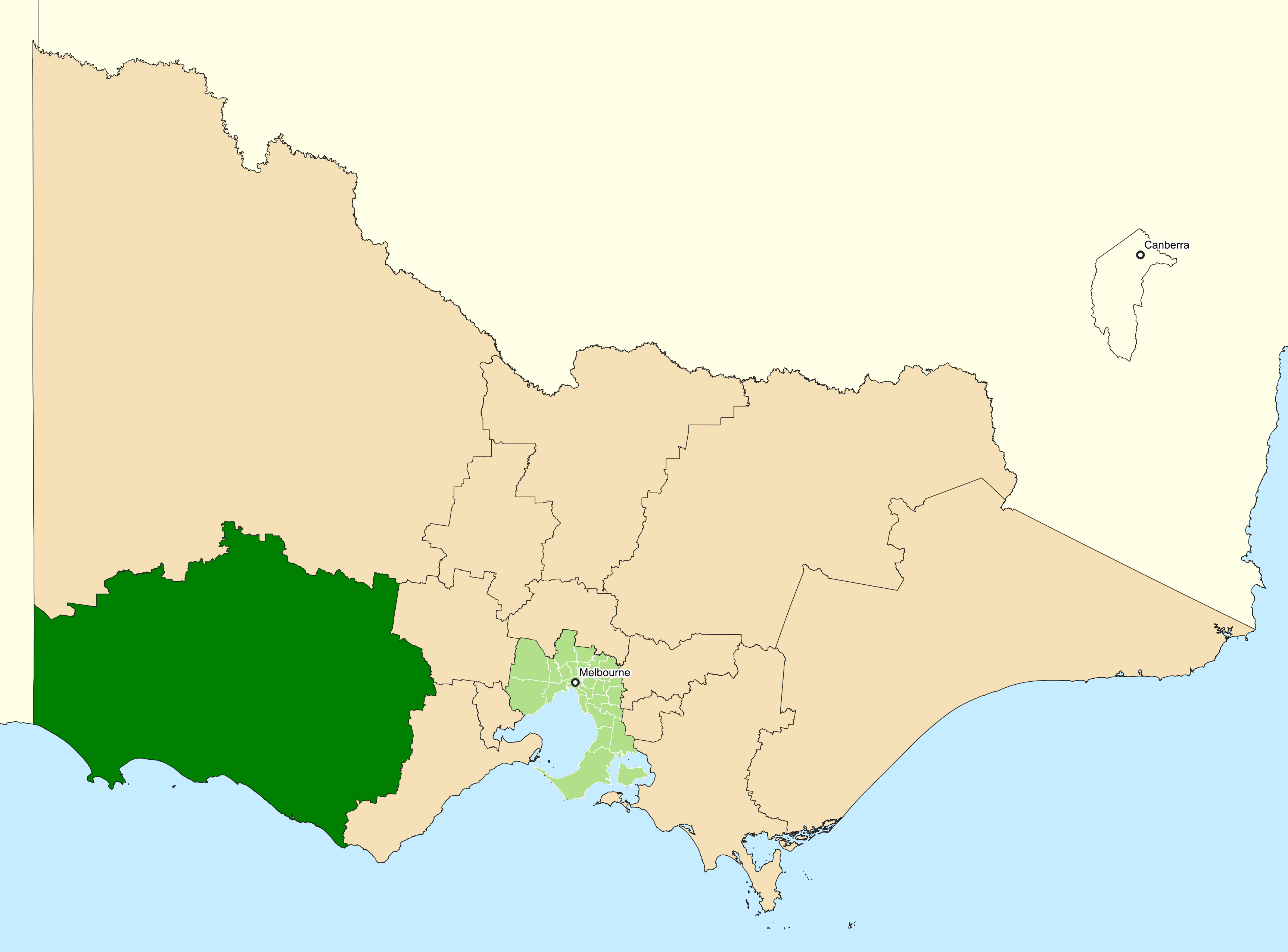 Location of the Australian federal electoral division of Wannon (dark green) in Victoria as of the 2019 Australian federal election. Incorporates or developed using Administrative Boundaries ©PSMA Australia Limited licensed by the Commonwealth of Australia under Creative Commons Attribution 4.0 International licence (CC BY 4.0).